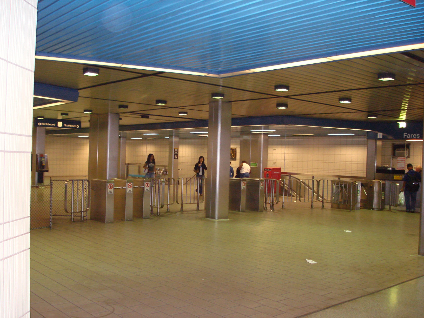 Mezzanine level of North York Centre subway station, Toronto.